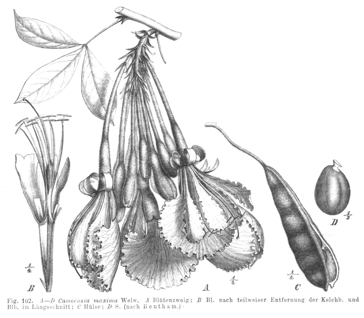 Illustration from book